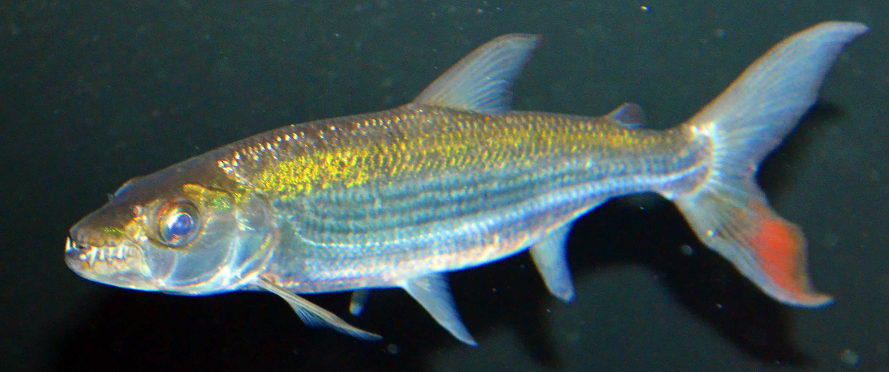 Hydrocynus goliath, about 11 inches